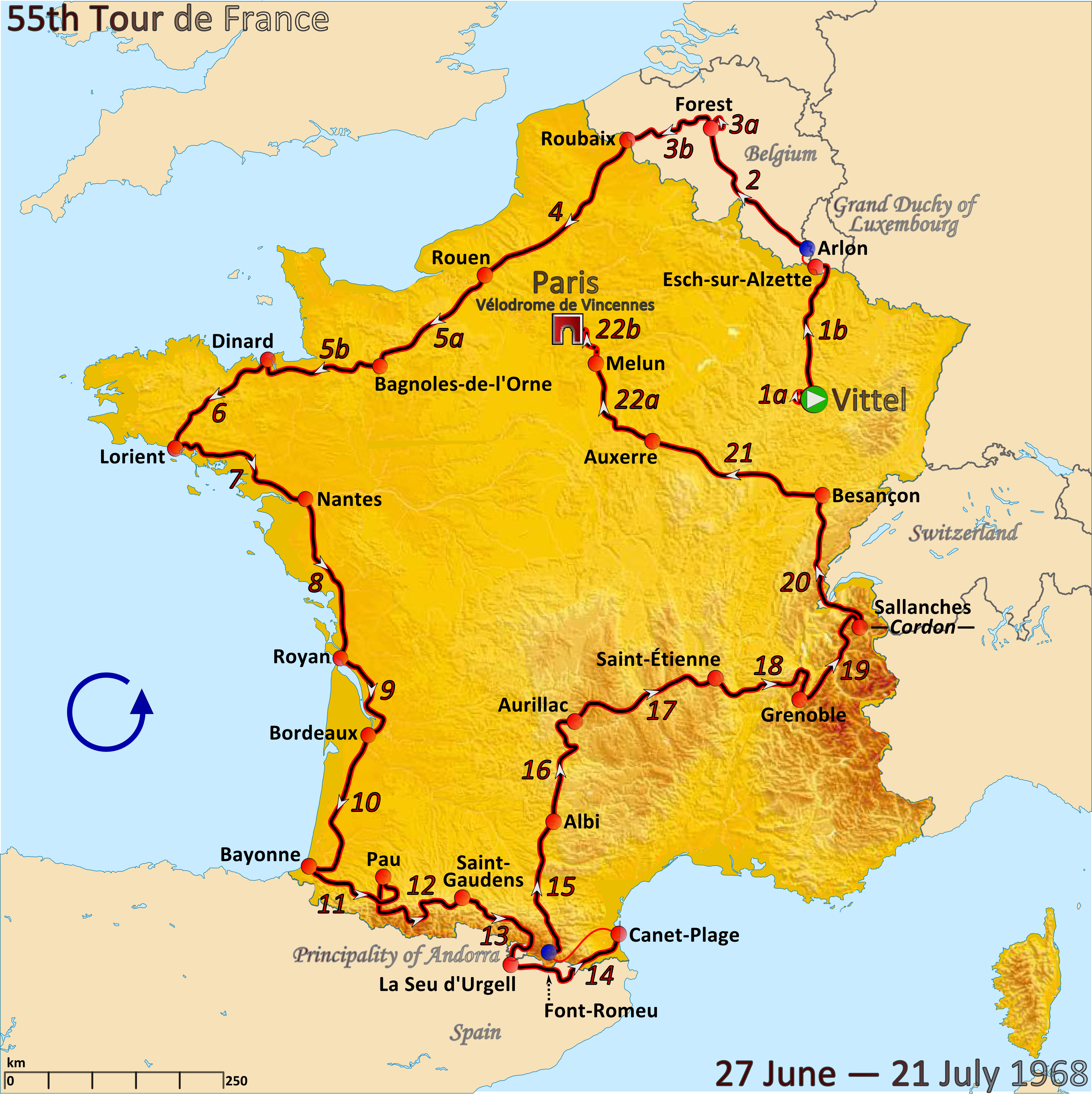 Map of the 1968 Tour de France created in Inkscape using accurate stage maps from touratlas.nl.